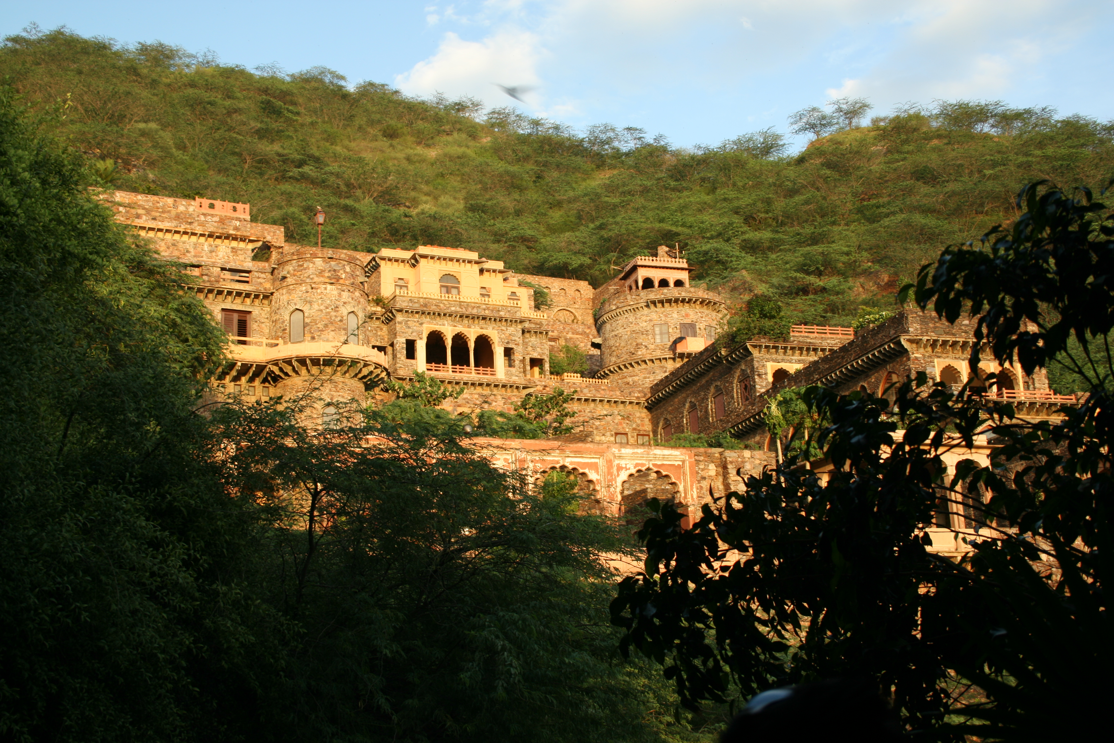 The hilltop fortress of Neemrana.